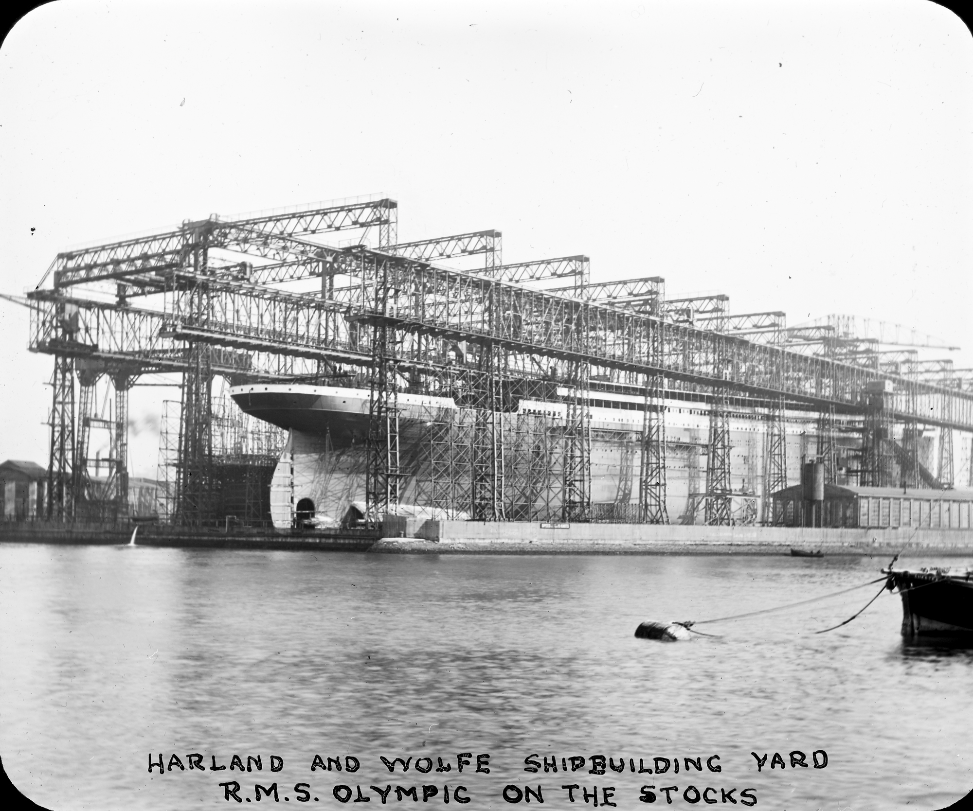 Harland and Wolff Shipbuilding Yard, R.M.S. Olympic on the stocks (Ships Cradle). While the photo was labeled as RMS Olympic, the ship we see is in fact her sister, RMS Titanic. This photo was taken shortly before her launch on May 31, 1911, the same day that the completed Olympic was handed over to the White Star Line by Harland & Wolff. Olympic and Titanic were constructed side by side, with Titanic in the slipway closest to the photographer. When Olympic was launched, her hull was painted white so that her lines would contrast with the surrounding gantry, making her easier to photograph at launch. Titanic, on the other hand, was painted in the traditional White Star livery before her launch. I think it is possible that our photographer, at the time would want to claim Olympic rather than Titanic, as Olympic was the big news of the day. It was after all the largest liner in the world when it was launched in 1910. Having said the above I believe it quite possible that any photo of either ship after the Titanic disaster could easily have been claimed as Titanic rather than Olympic. Thanks to both [/photos/129555378@N07/ sharon.corbet] and [/photos/91549360@N03/ OwenMacC] for the above Titanic theory. Photographer: Thomas H. Mason Collection: The Mason Photographic Collection Date: Circa 1910 NLI Ref: M25/J/3 You can also view this image, and many thousands of others, on the NLI’s catalogue at